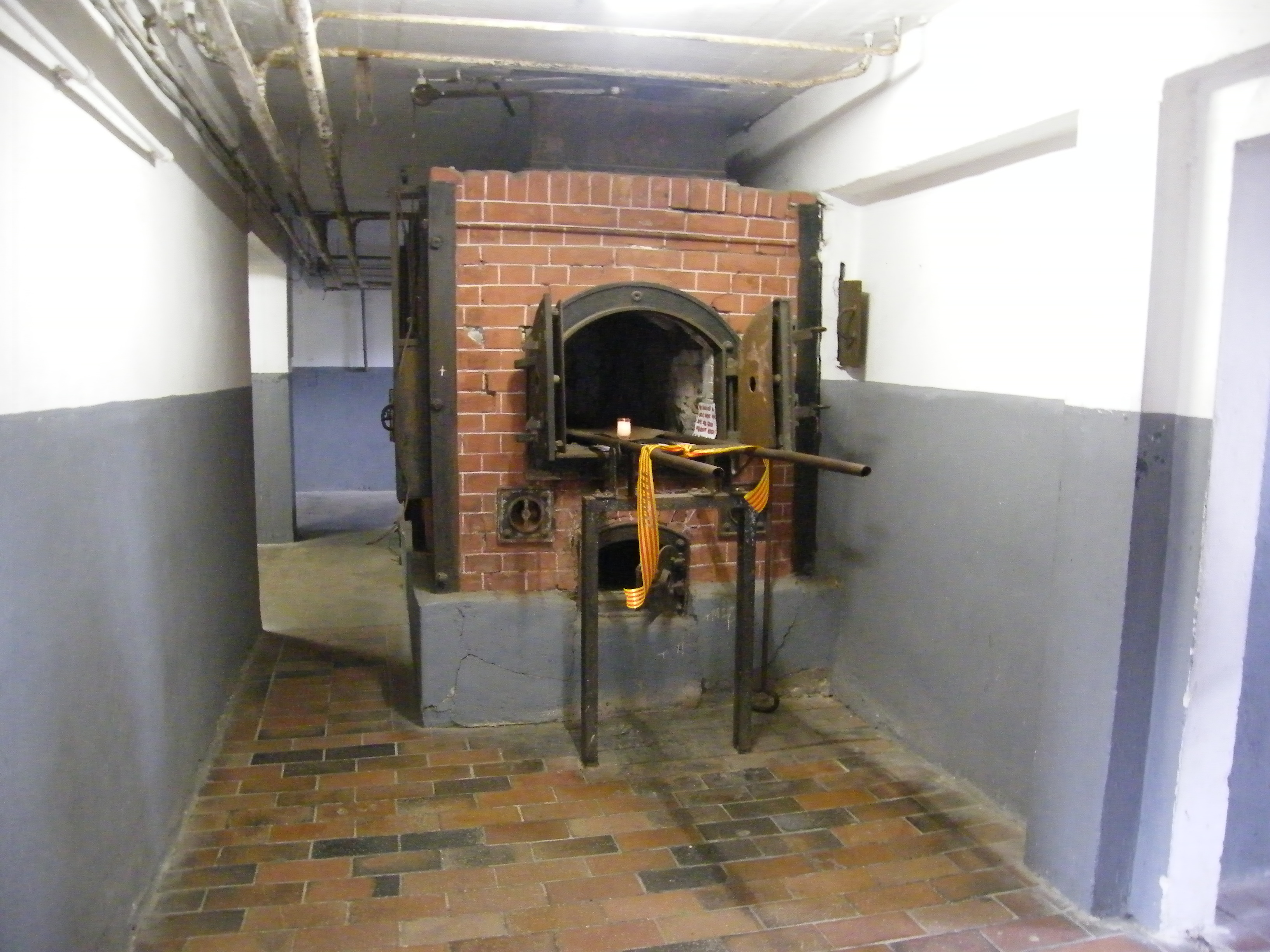 Mauthausen crematory, oven no. 1.